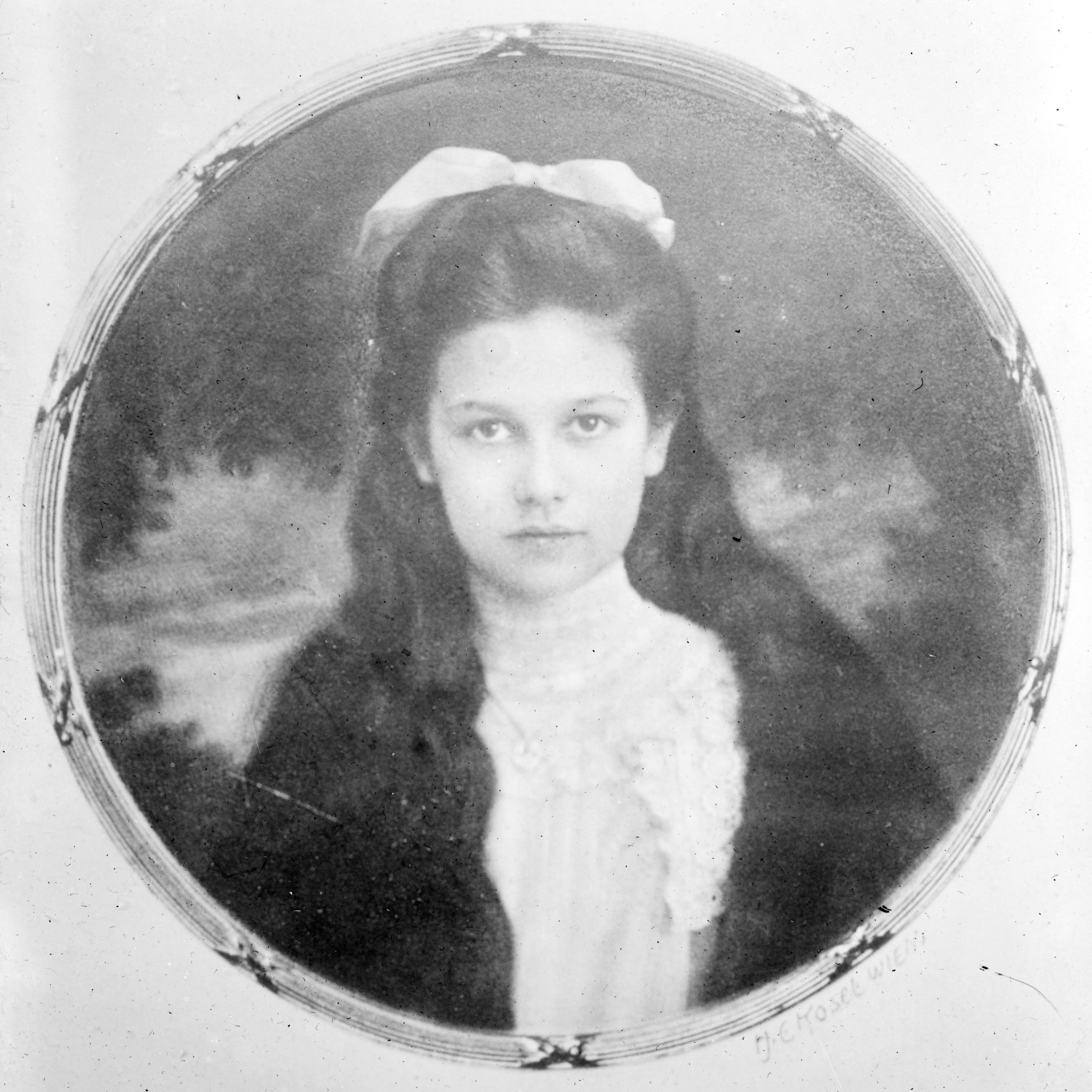 Princess Sophie von Hohenberg (1901-1990), daughter of the assassinated Archduke Franz Ferdinand of Austria.